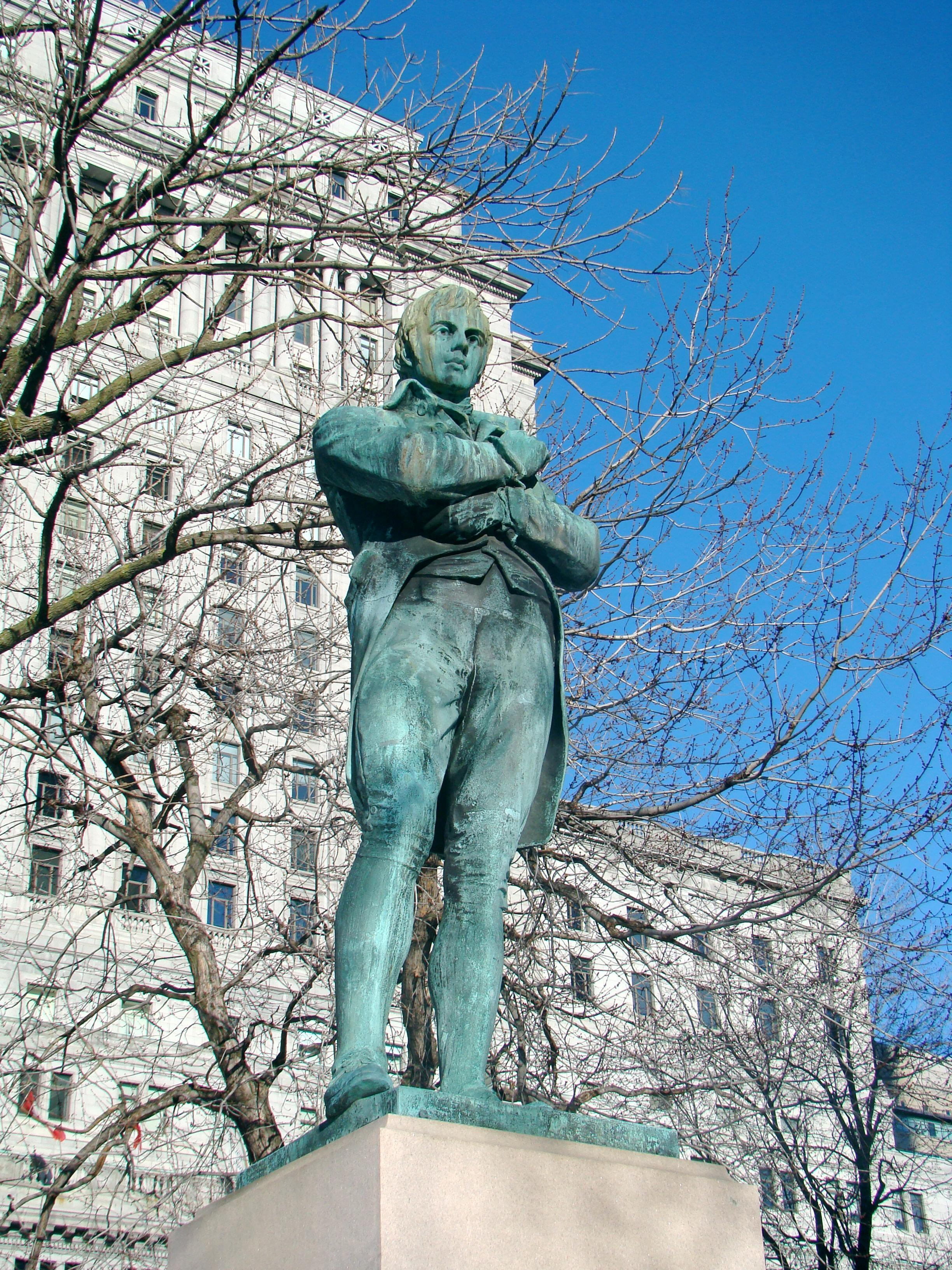 Statue in tribute to Robert Burns in Montreal's Dorchester Square, erected to honour Montreal's Scottish community and heritage.